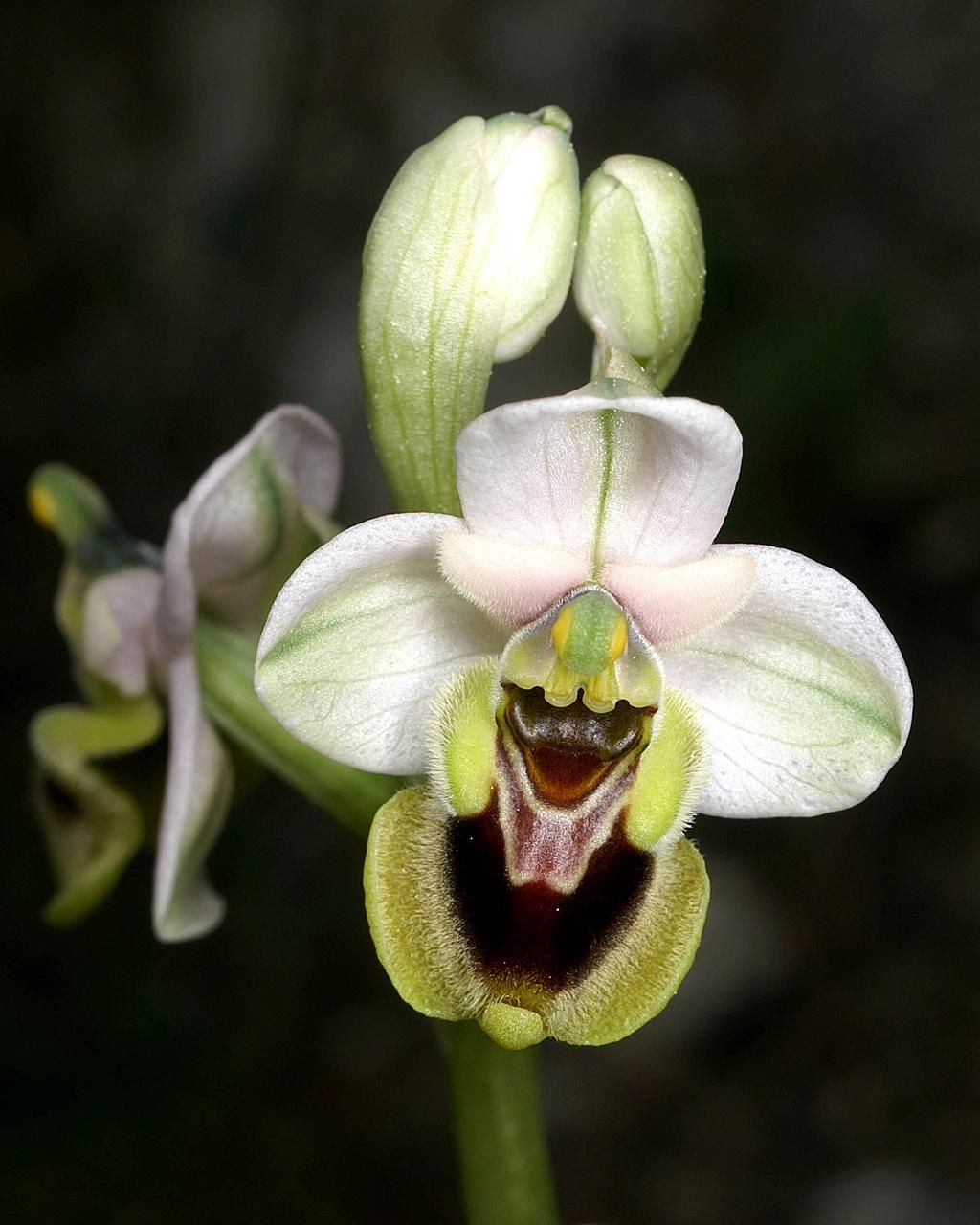 Ophrys tenthredinifera - single flower